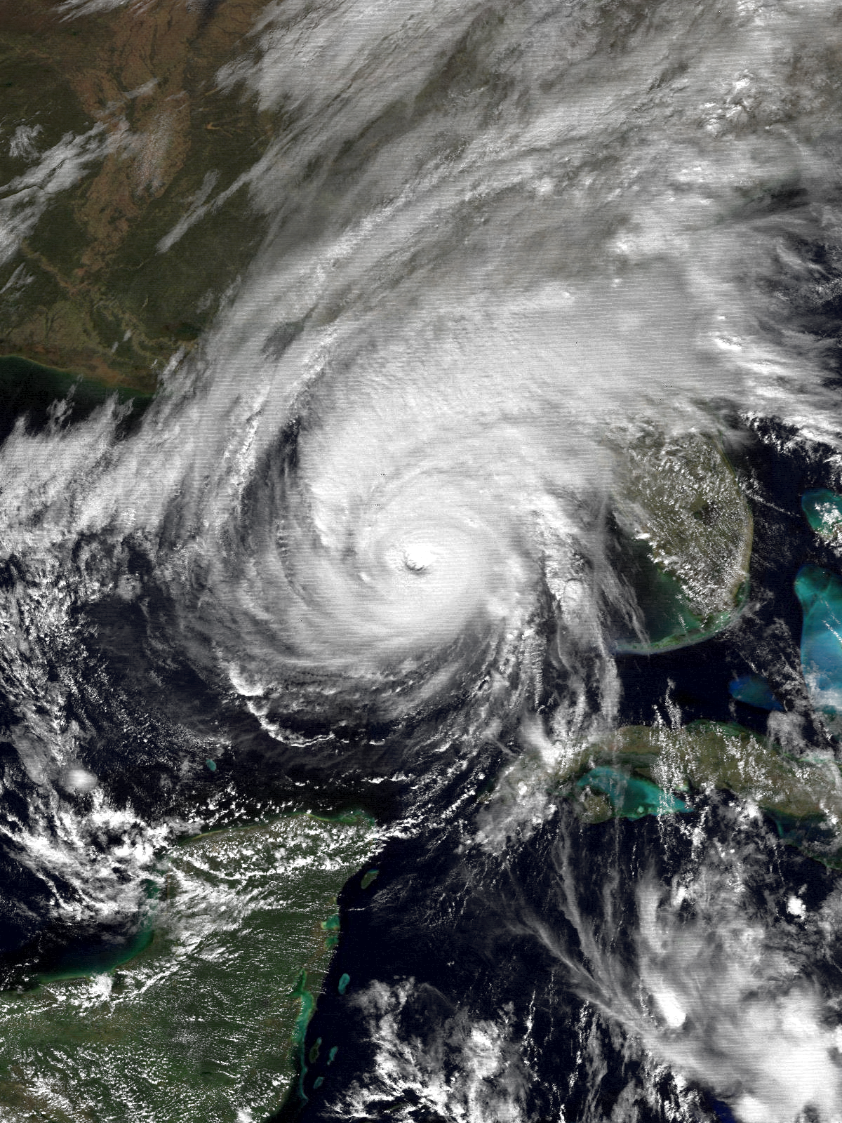 Hurricane Kate on November 20, 1985